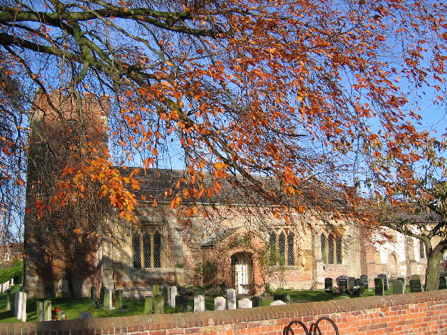 Church of Saint Catherine, Leconfield, East Riding of Yorkshire, England.Leconfield is situated on the A164 Beverley to Driffield road and is home to Normandy Barracks.